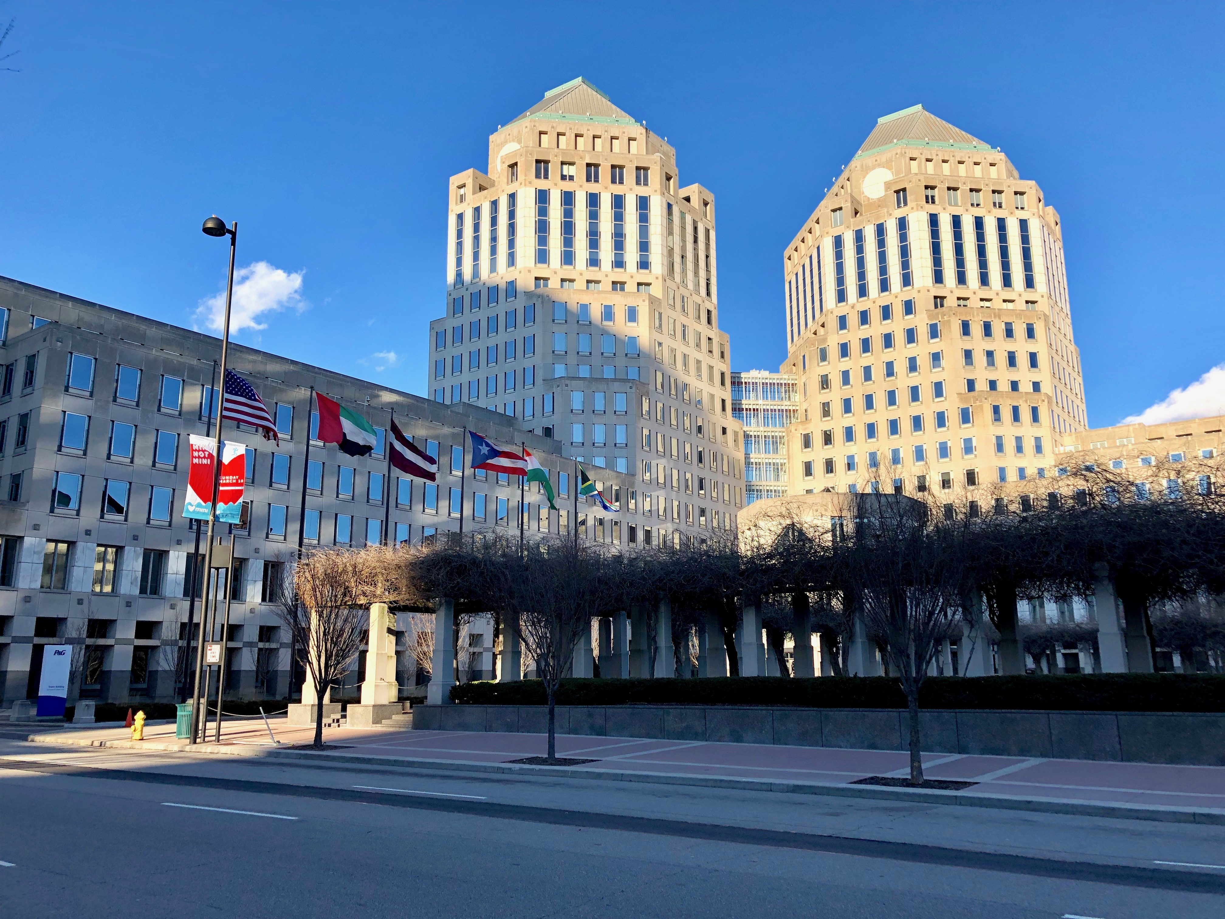 Downtown, Cincinnati, OH, USA